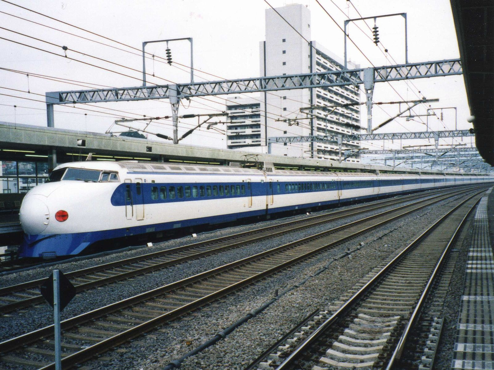 Central Japan Railway Company, Shinkansen Series 0.